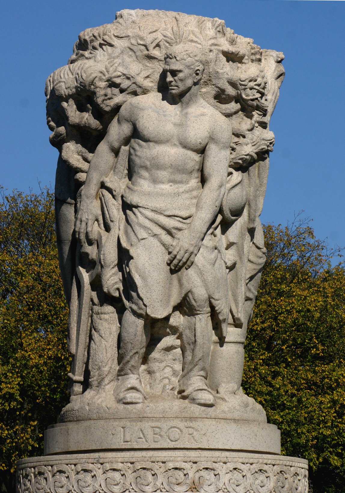 A detail of the John Ericsson National Memorial on The Mall in Washington, D.C. Created by sculptor James Earle Fraser, it honors engineer John Ericsson.